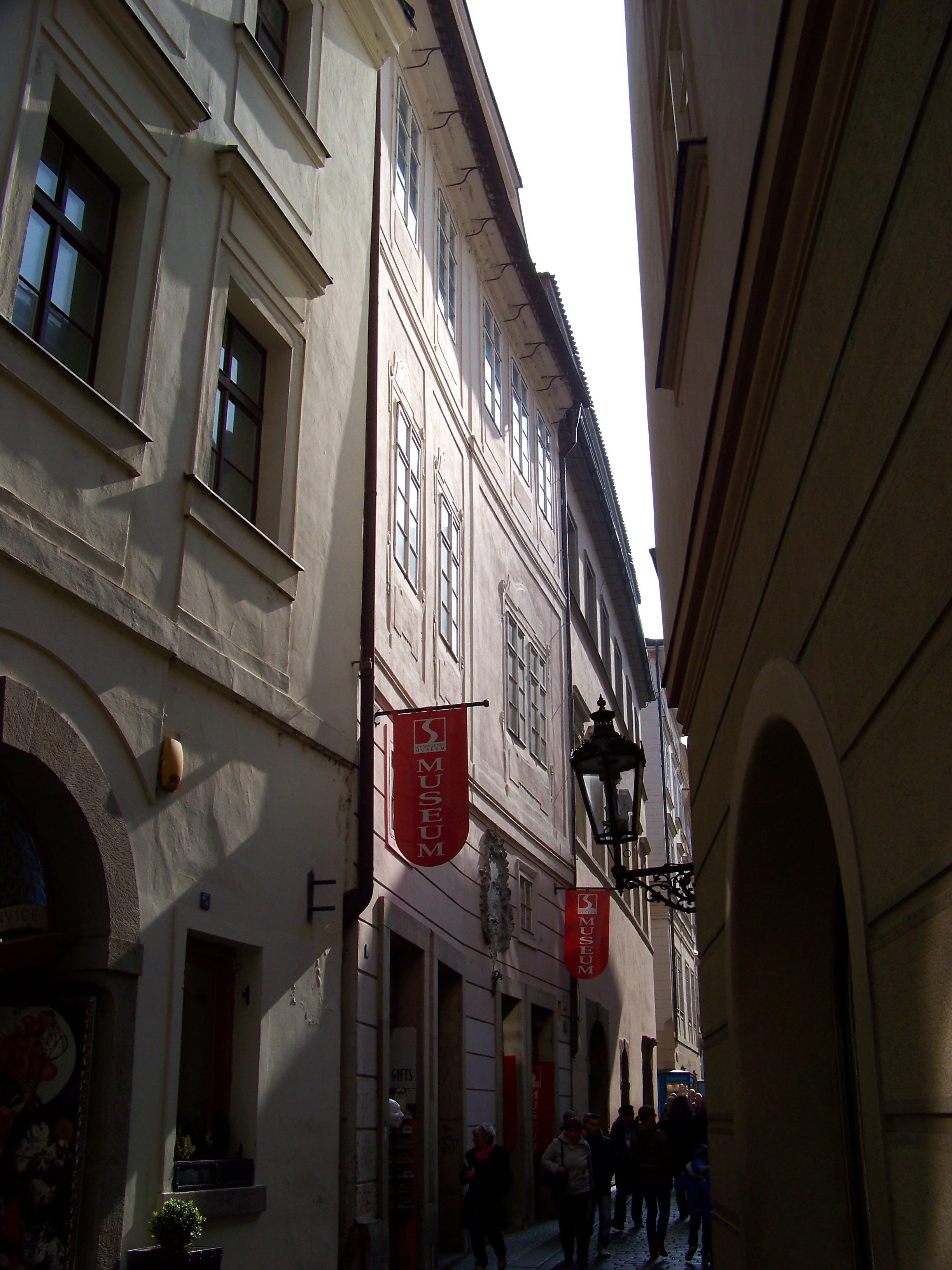 Prague-Old Town, Czech Republic. Melantrichova 476/18.